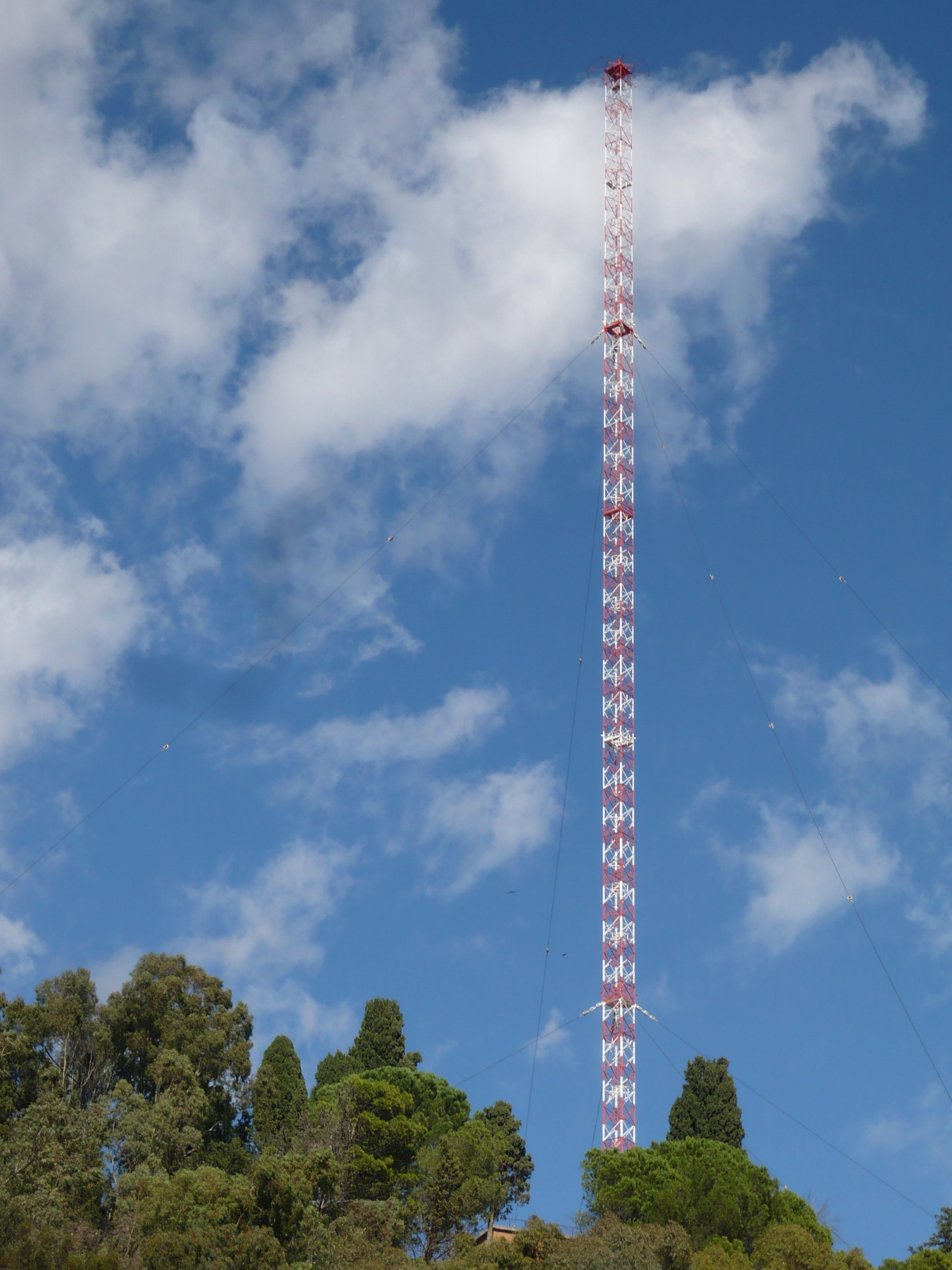 Caltanissetta - Transmitter RAI shut down in 2004.